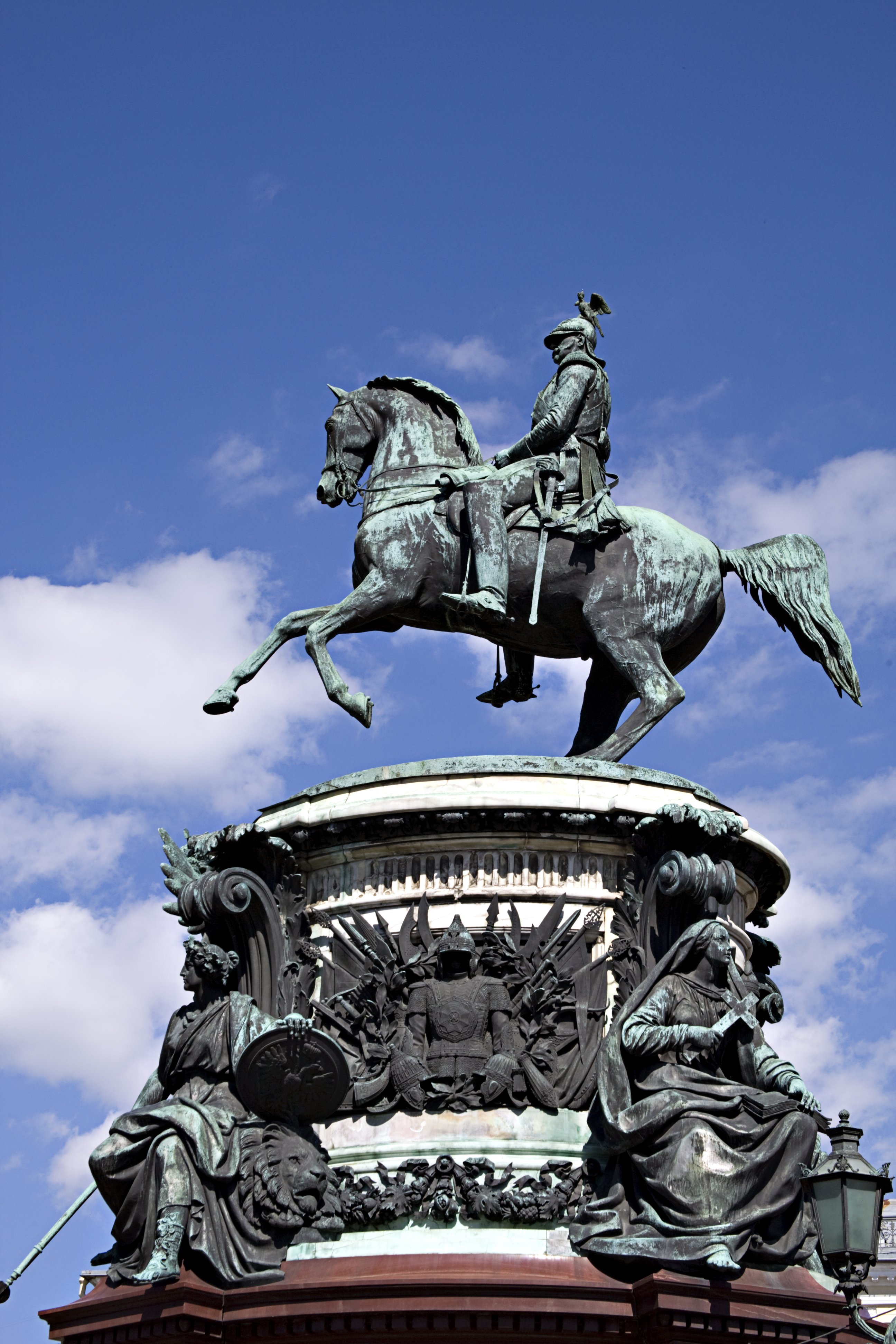 Statue of Nicholas I of Russia in St Petersburg, Russia